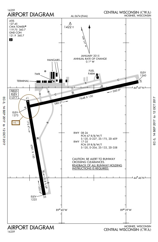 FAA diagram of Central Wisconsin Airport (CWA) in Mosinee, Wisconsin.